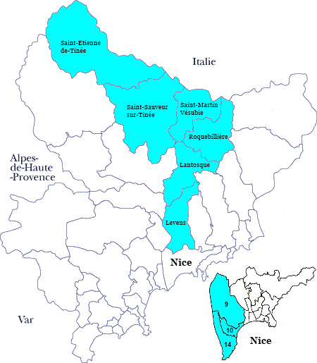 Map of Alpes Maritimes' 5th constituency, France (2010 redistricting, into force from 2012 French legislative elections).